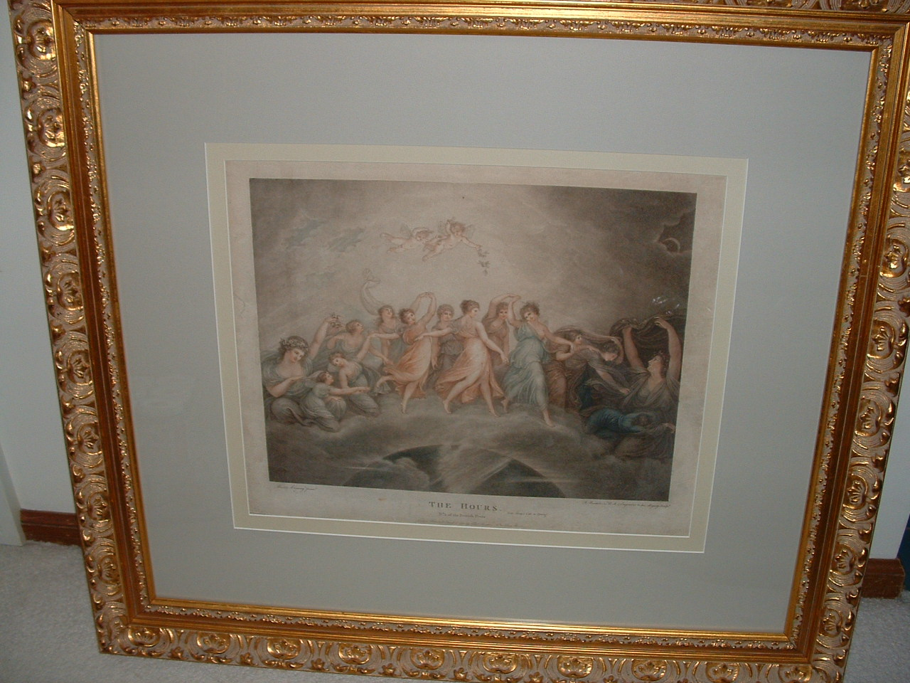 Zoomed-out view of original engraving "The Hours" by Francesco Bartolozzi